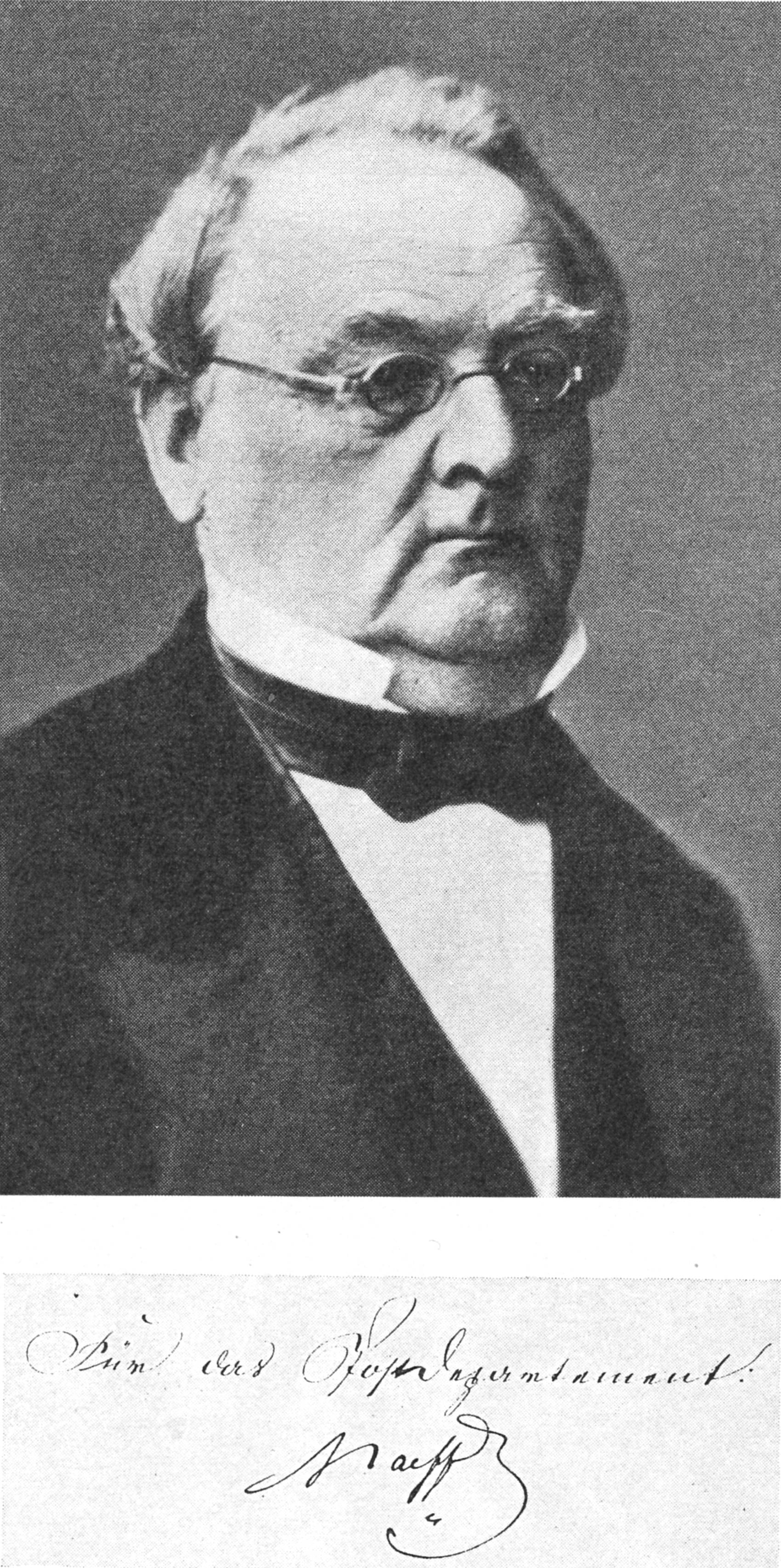 Wilhelm Matthias Naeff, member of the Swiss Federal Council 1848-1875, photo with signature